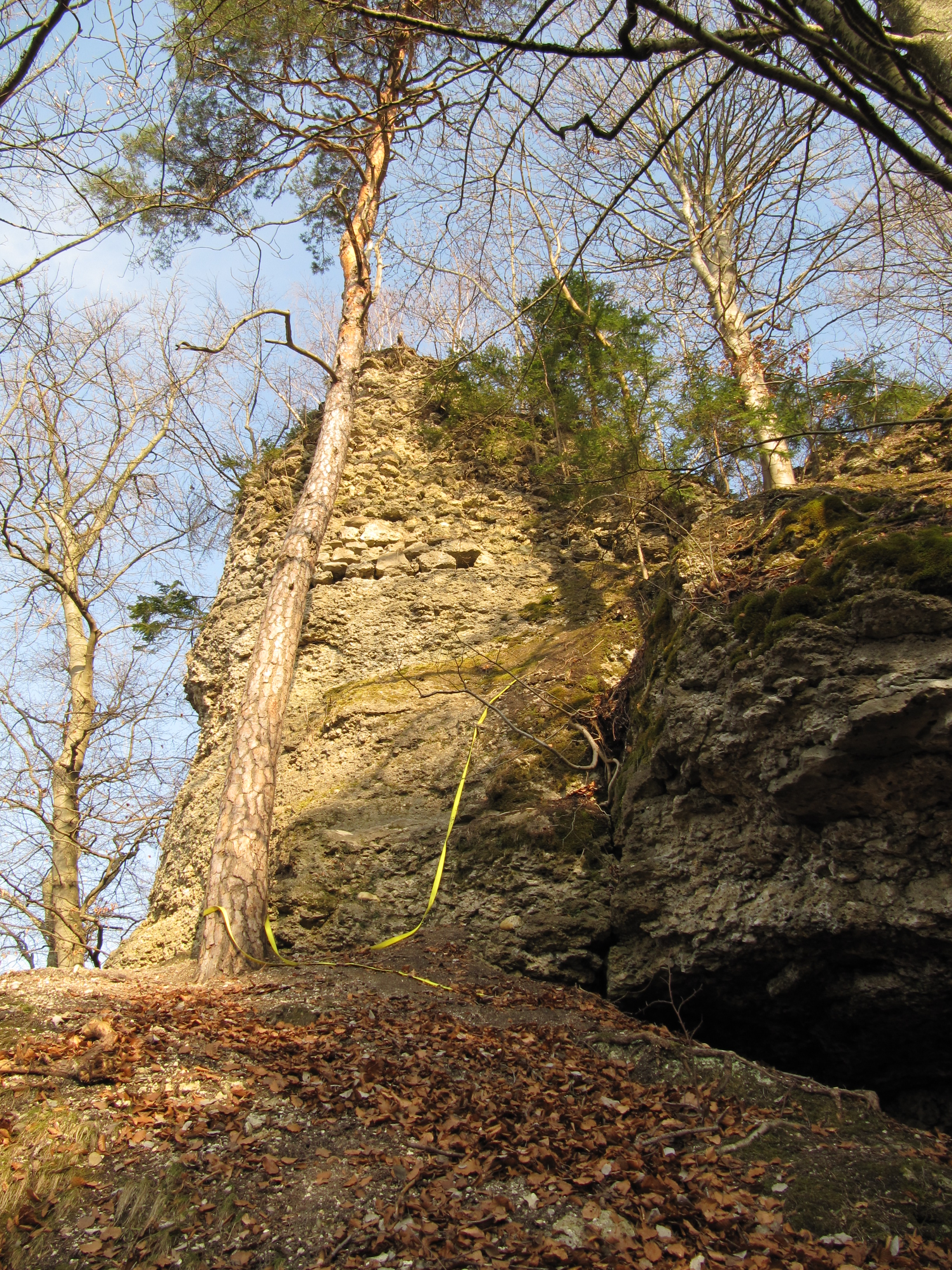 Remainings of the western tower of the ruined Gurnitz castle